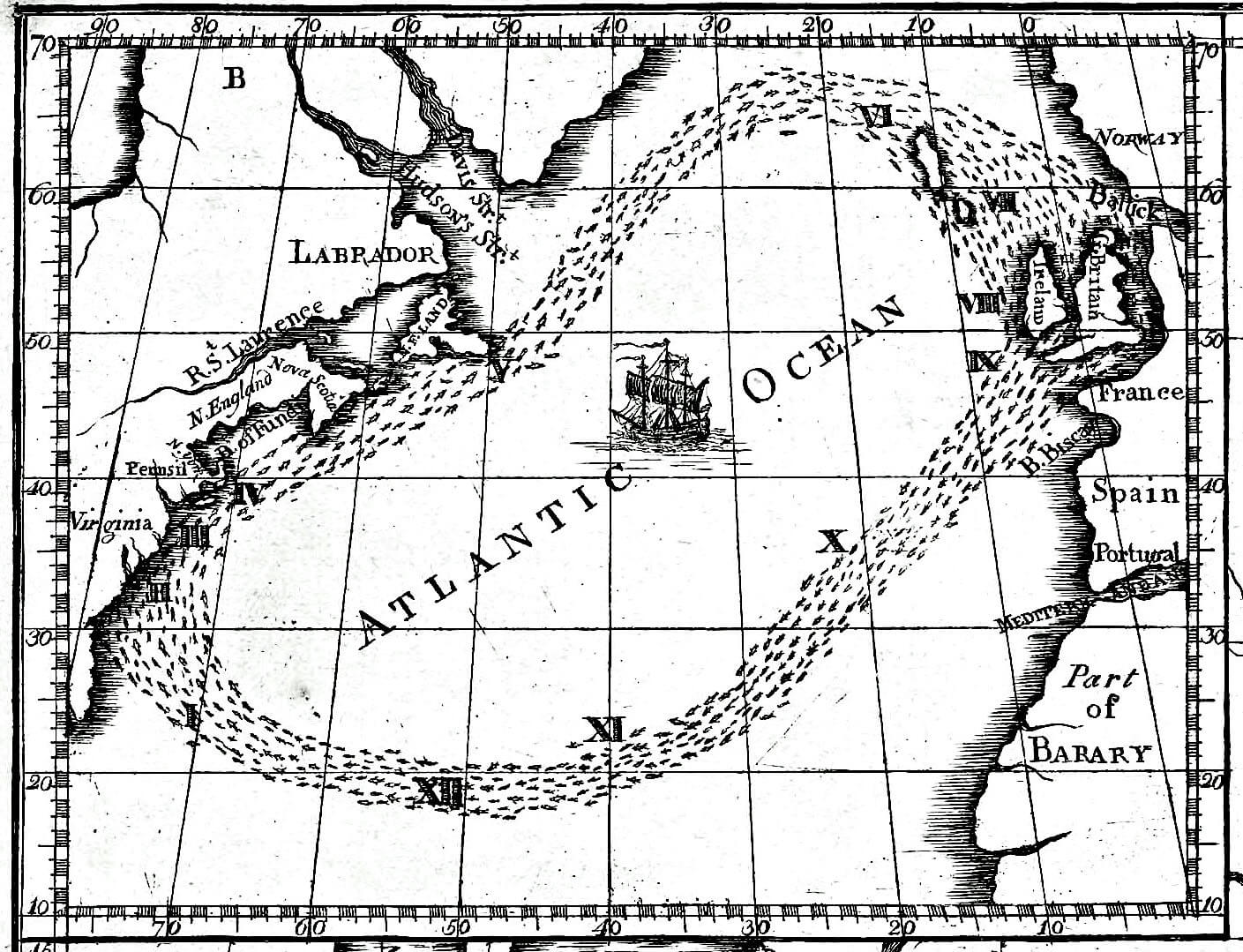 Cropped version of whole image found at